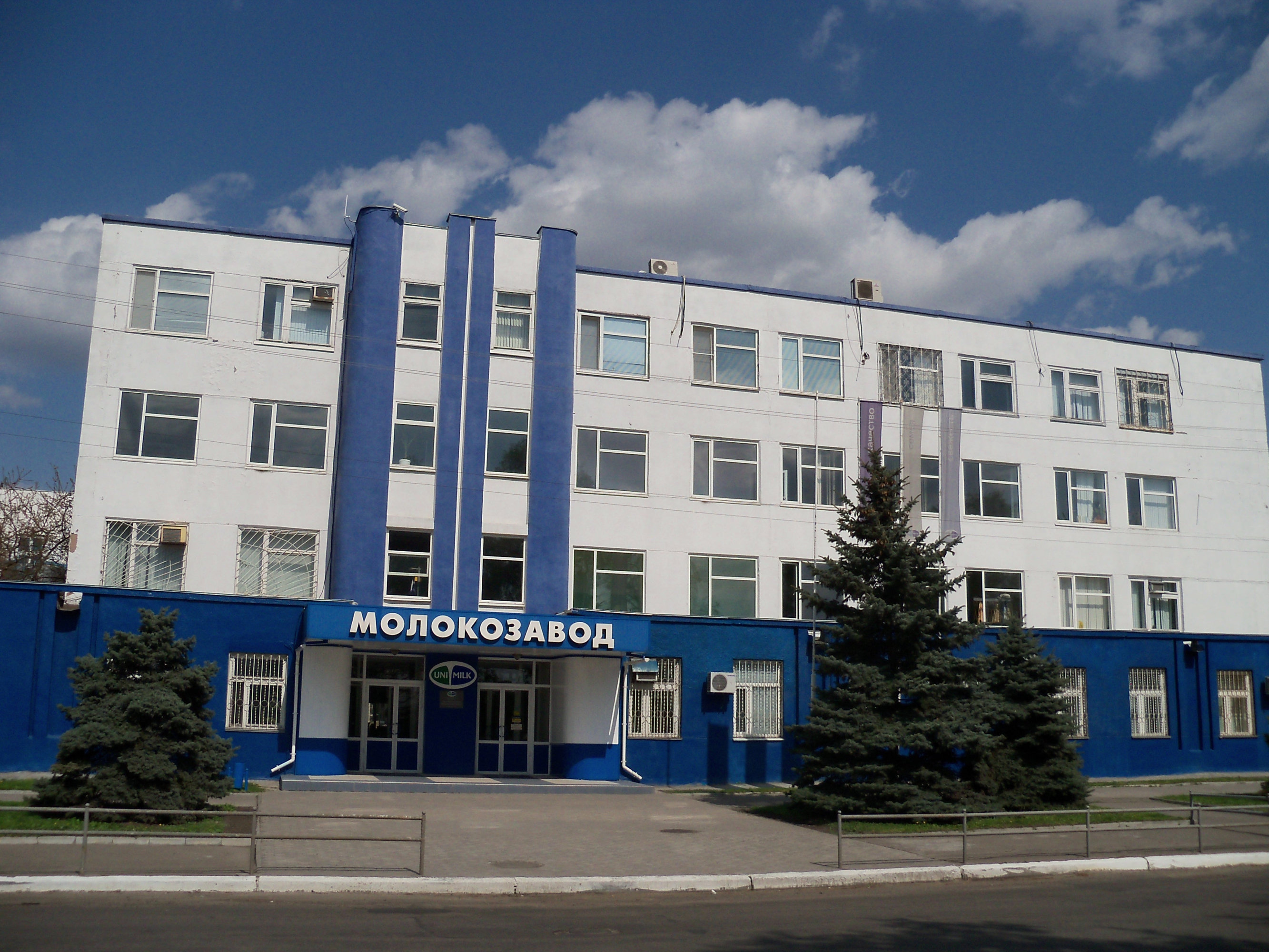 Kremenchuk dairy plant